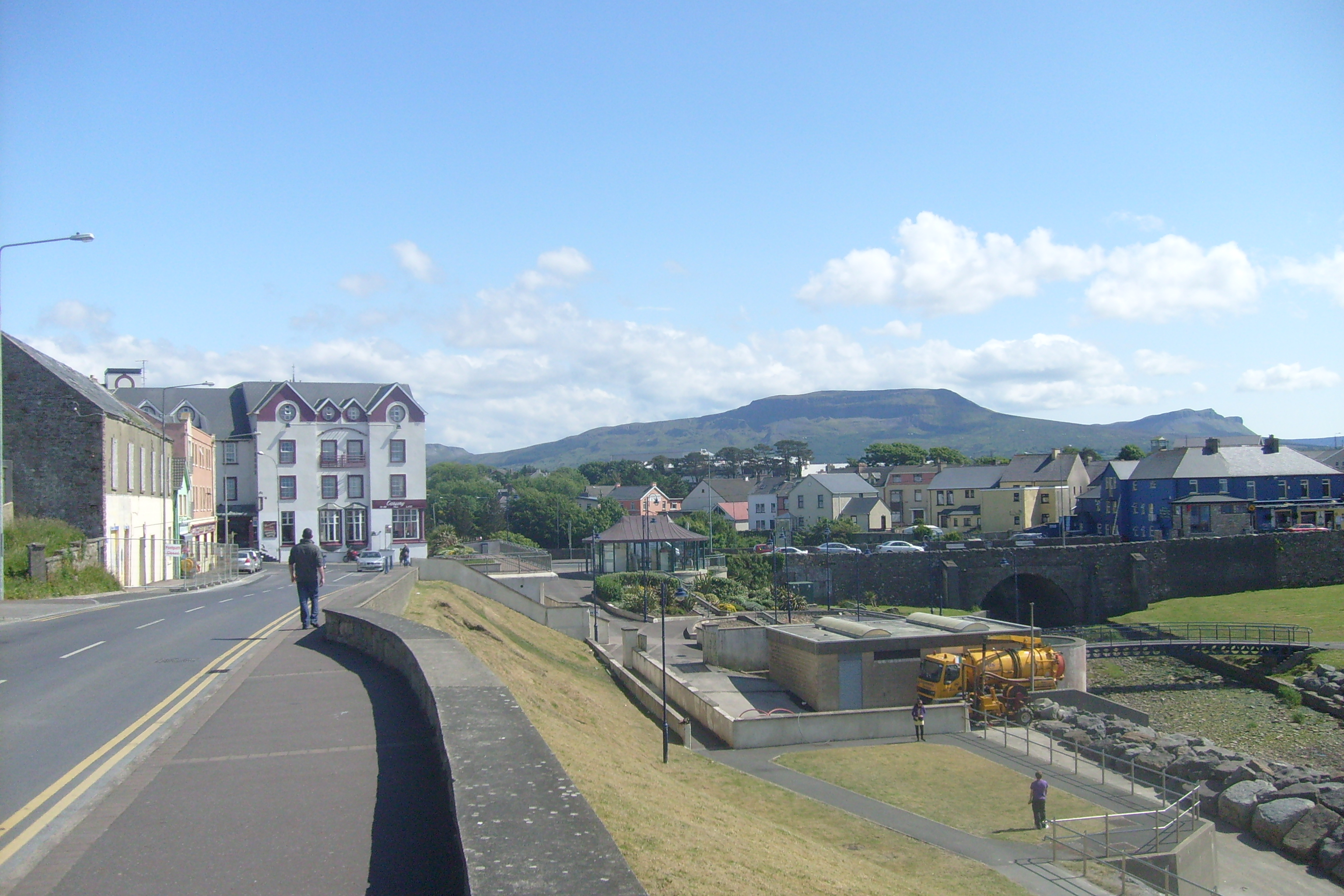 Bundoran, Co. Donegal, Ireland - Ben Bulben in background